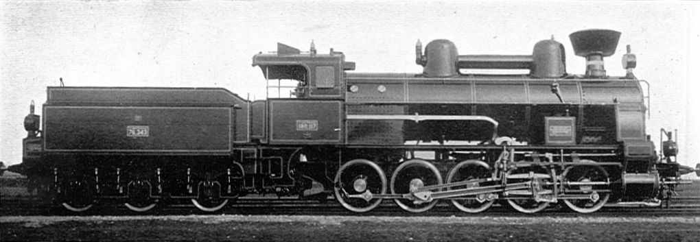 Golsdorf Compound "Decapod": Austrian State Railways kkStB class 180 steam engine